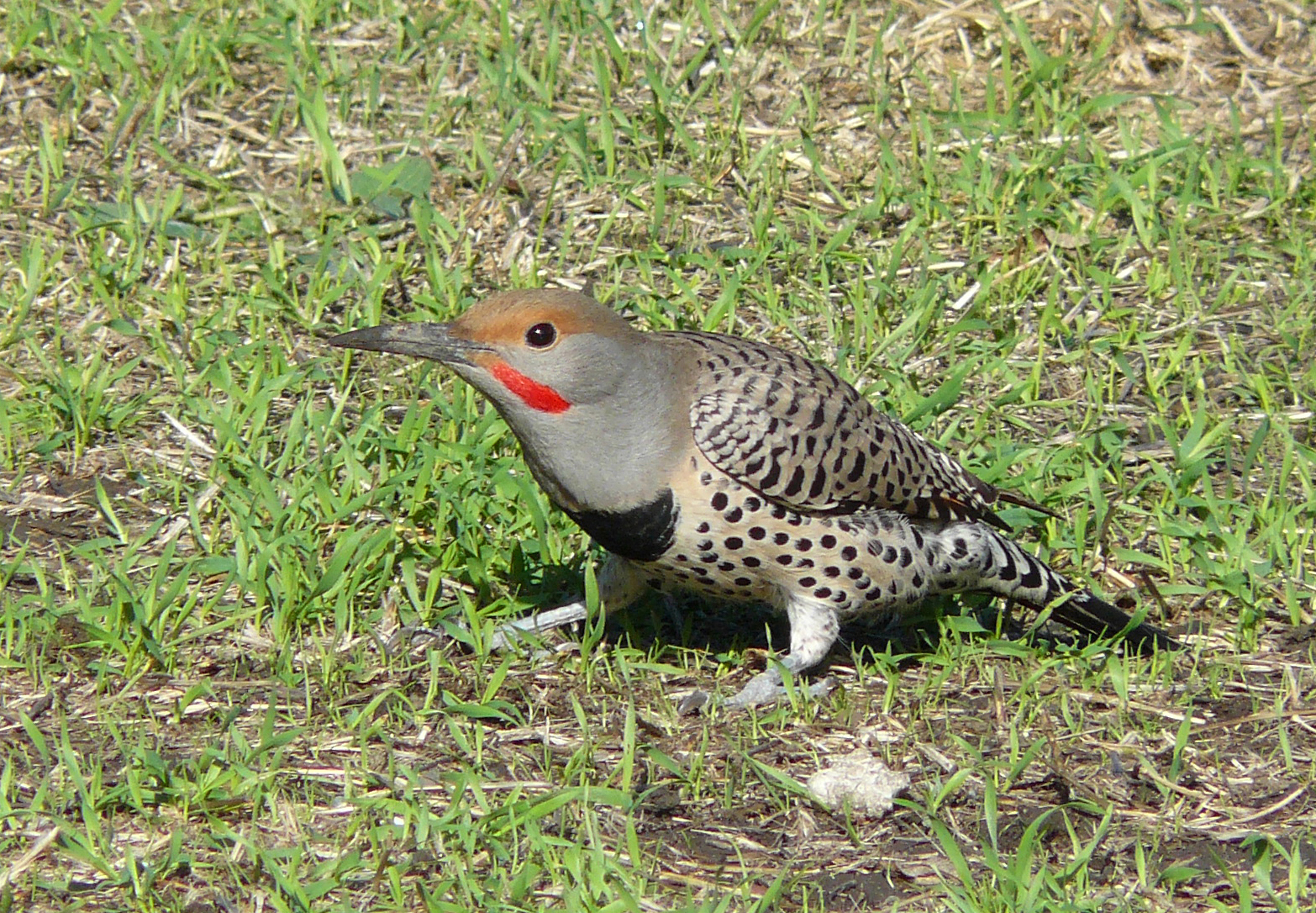 A male Northern Flicker at Montana de Oro State Park, California, USA. This subspecies is also called the Red-shafted Flicker.